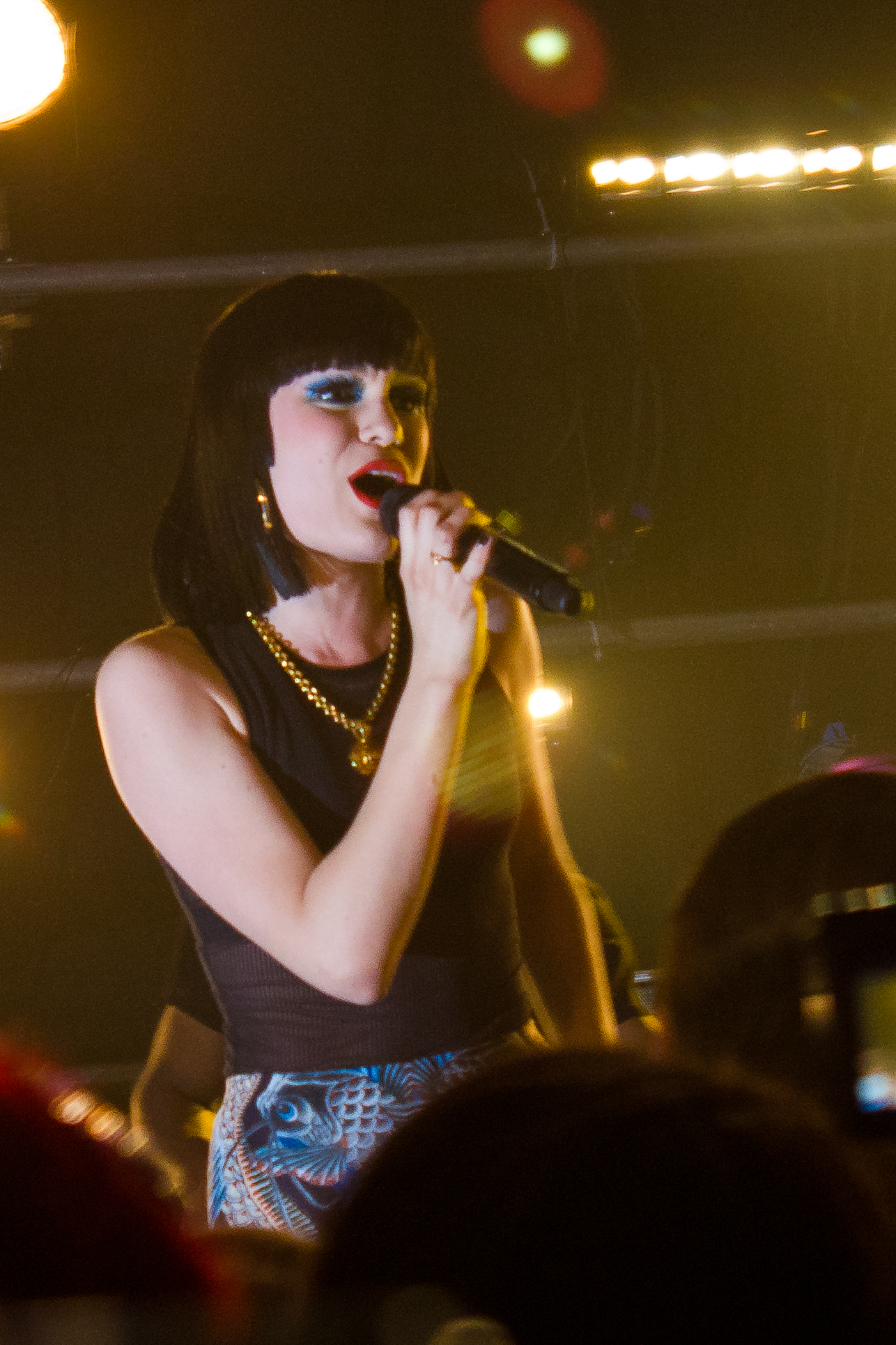 Jessie J P.C. Richard & Son Theater New York City